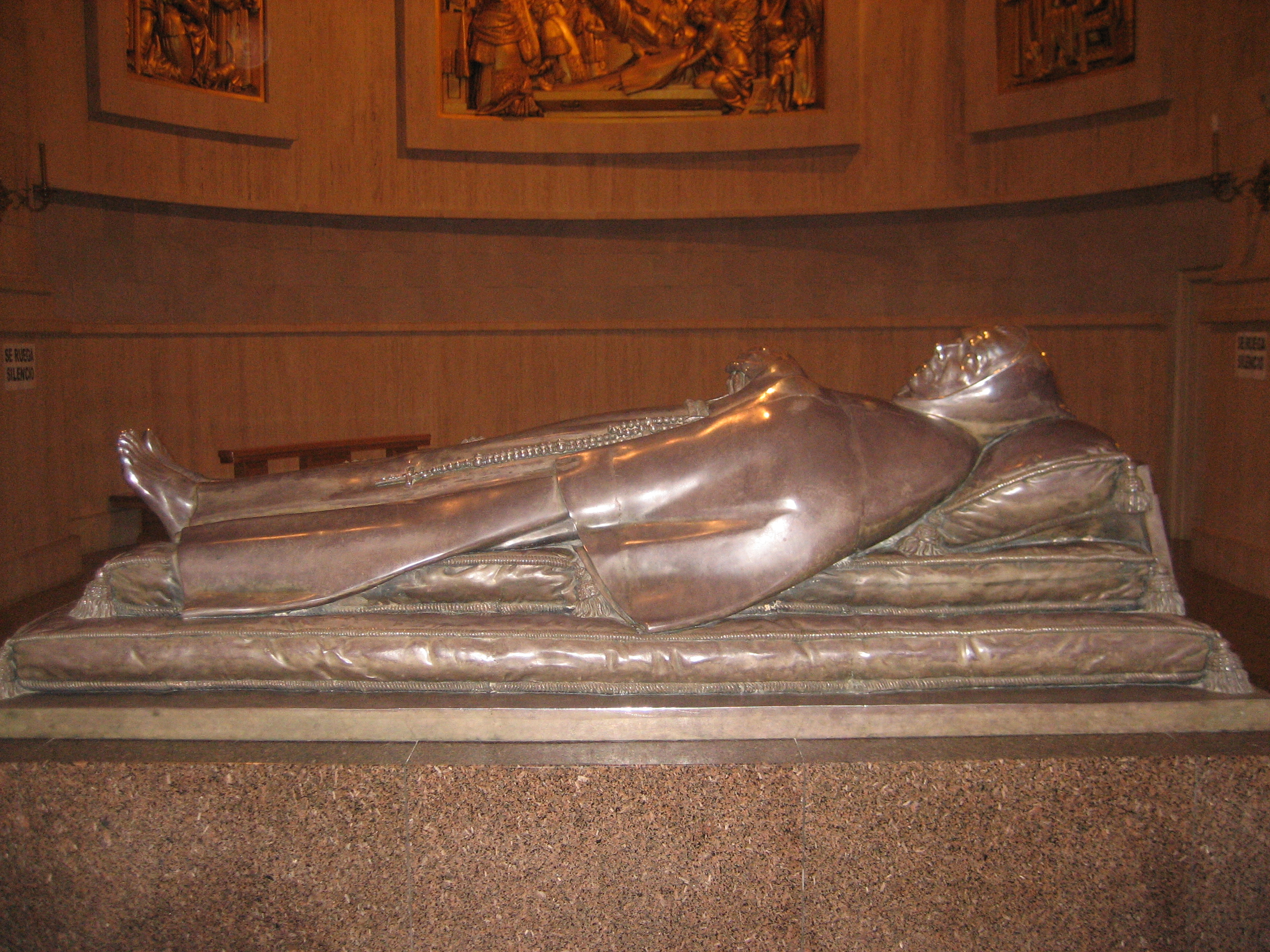 St. Paschal Baylón silver sepulchre in Vila-real